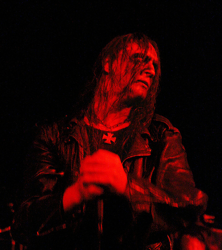 Mortuus, vocalist of the band Marduk, during a concert in 2007 in Arnhem. I (Hervegirod) made this picture myself. The original is on my flickr home page, which states this image is my own work